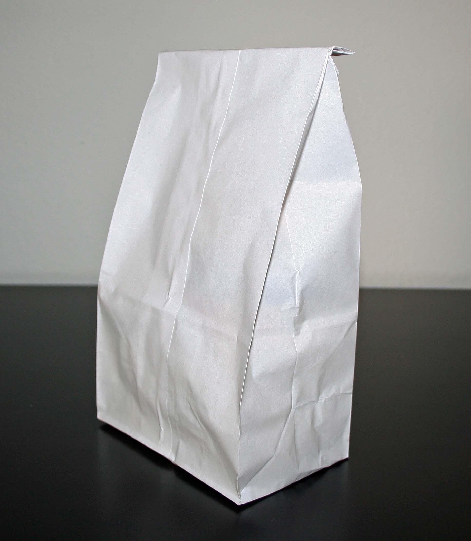 A white paper bag on white and black background